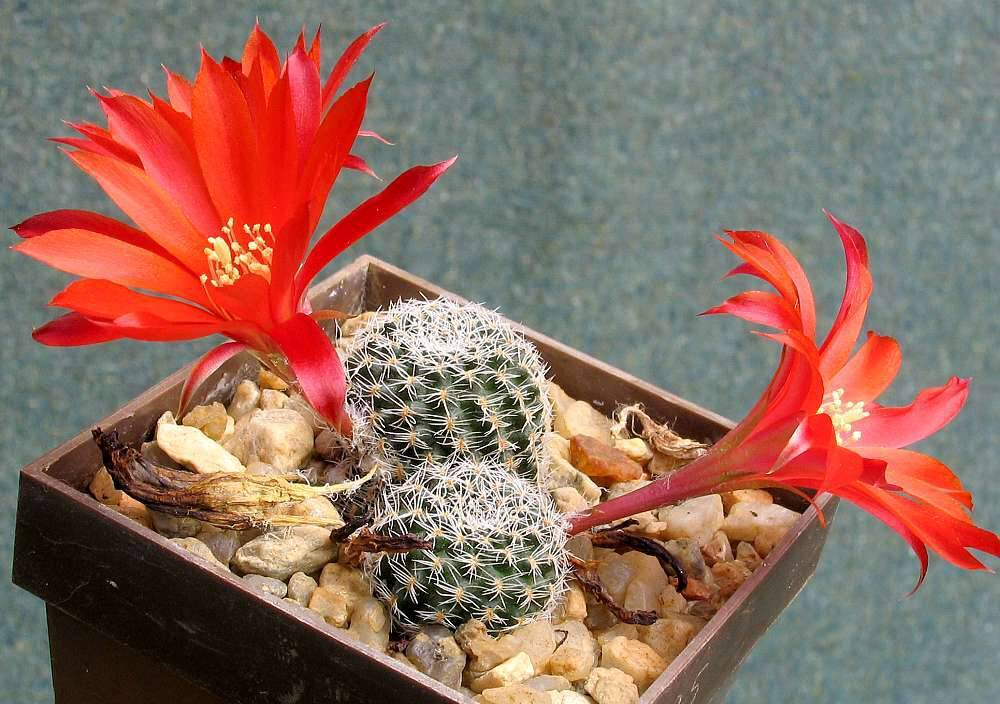 Rebutia heliosa Rausch var. condorensis Donald - cultivated plant from own collection.